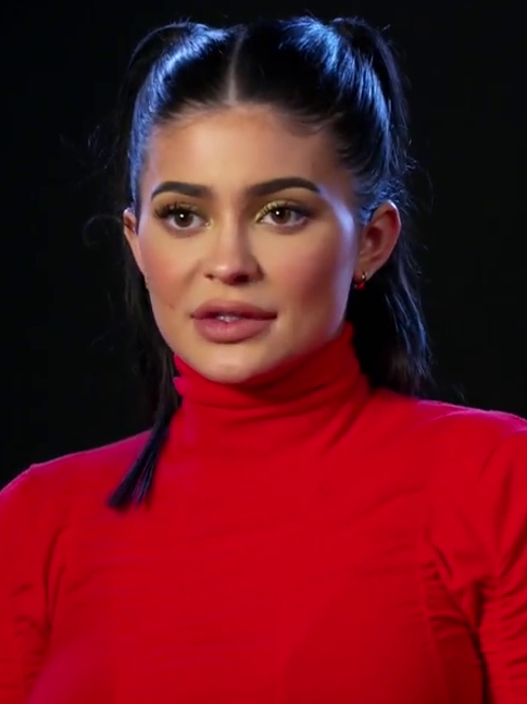 Kylie Jenner